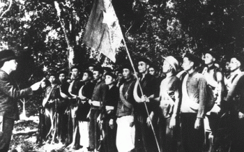 Vietnam People's Army date establishment